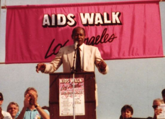 Tom Bradley speaking at AIDS Walk LA at the Paramount Studios lot